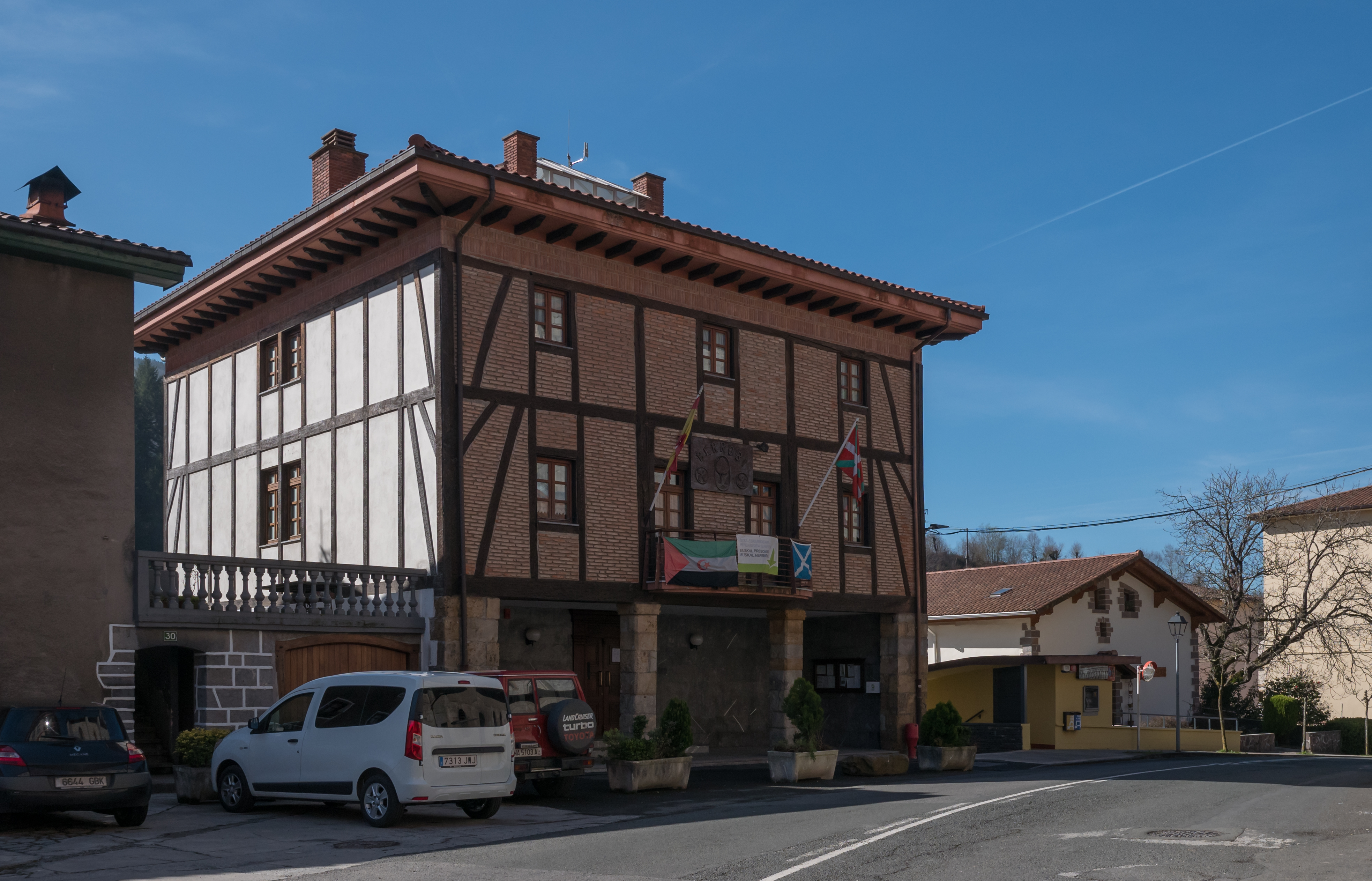 Town hall of Berrobi. Gipuzkoa, Basque Country, Spain